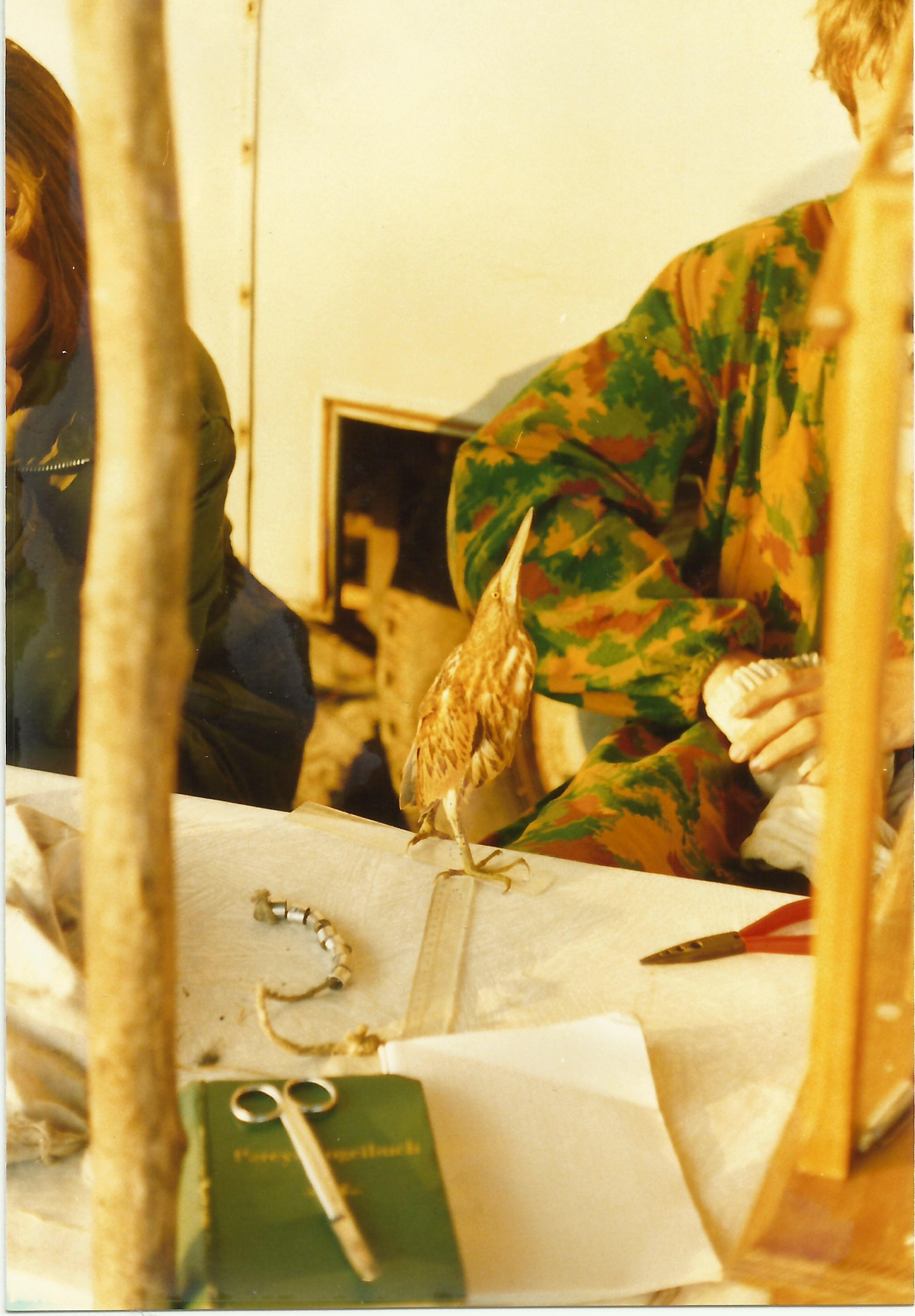 Törpegém álldogál a gyűrűzőasztalon, a fenékpusztai gyűrűzőtáborban (a dátum hozzávetőleges)